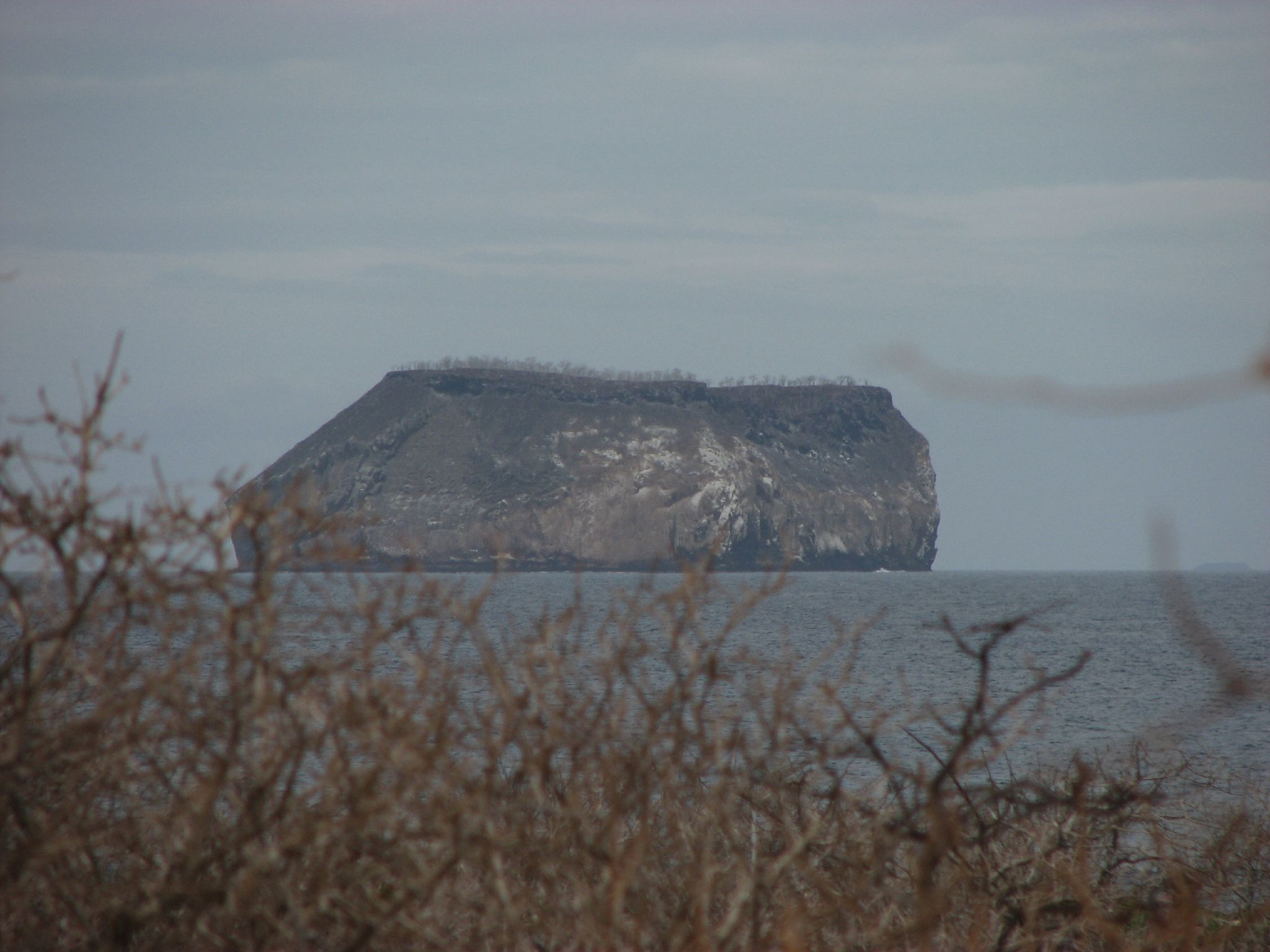 December 7, 2006: The island named Daphne Minor